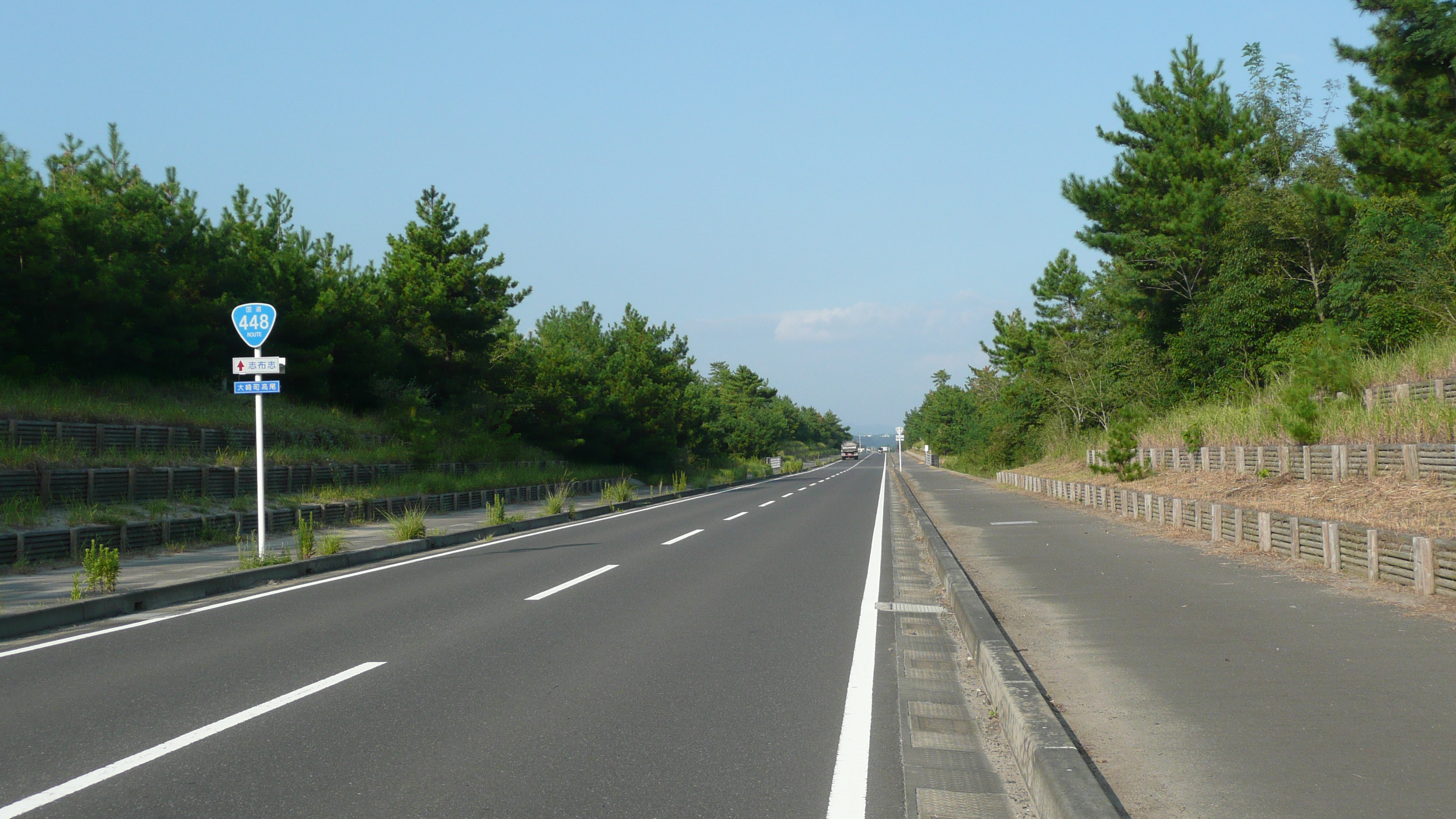 National Route 448 (Takao, Osaki Town, Kagoshima, Japan)